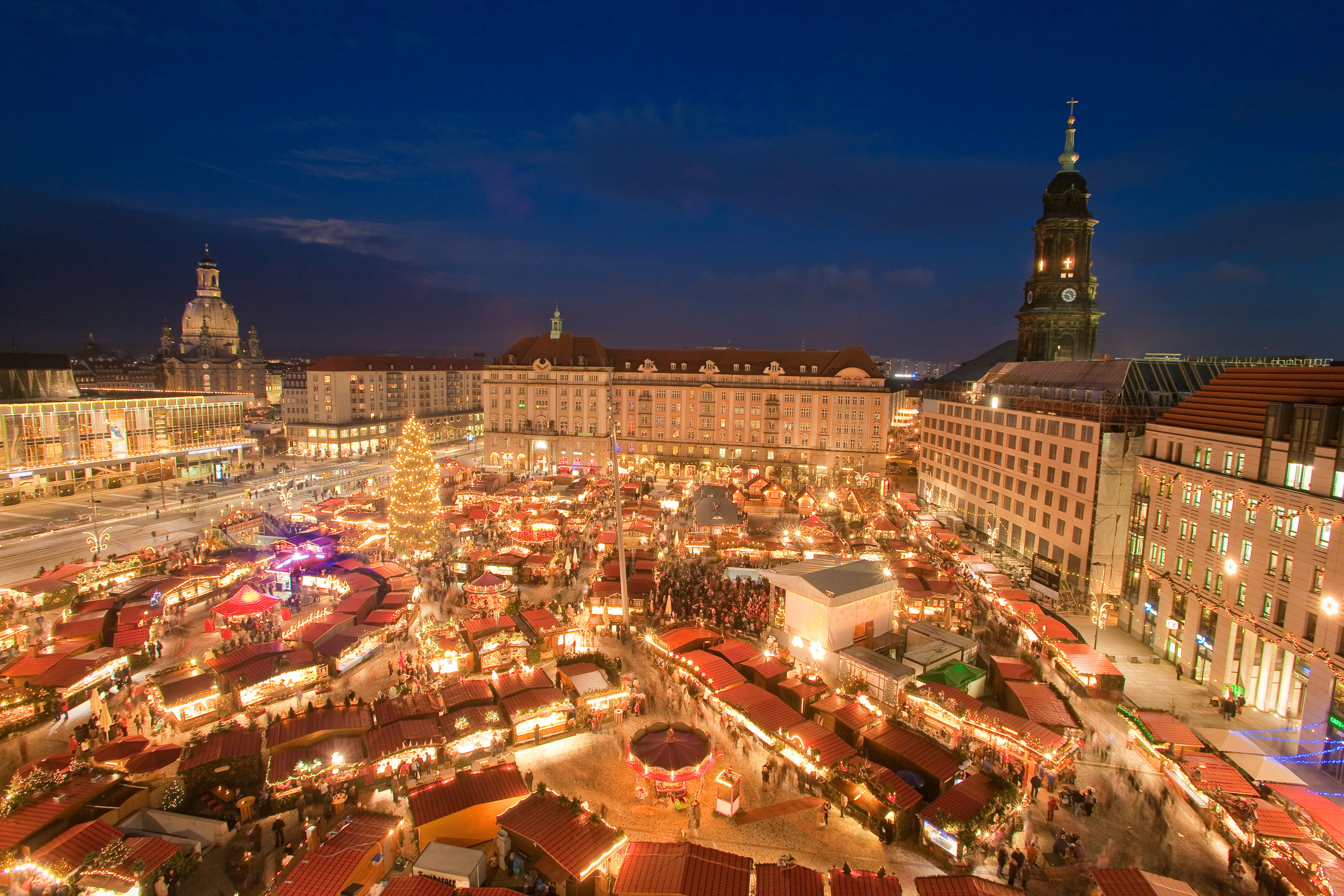 576th Dresden Striezelmarkt 2009 from above